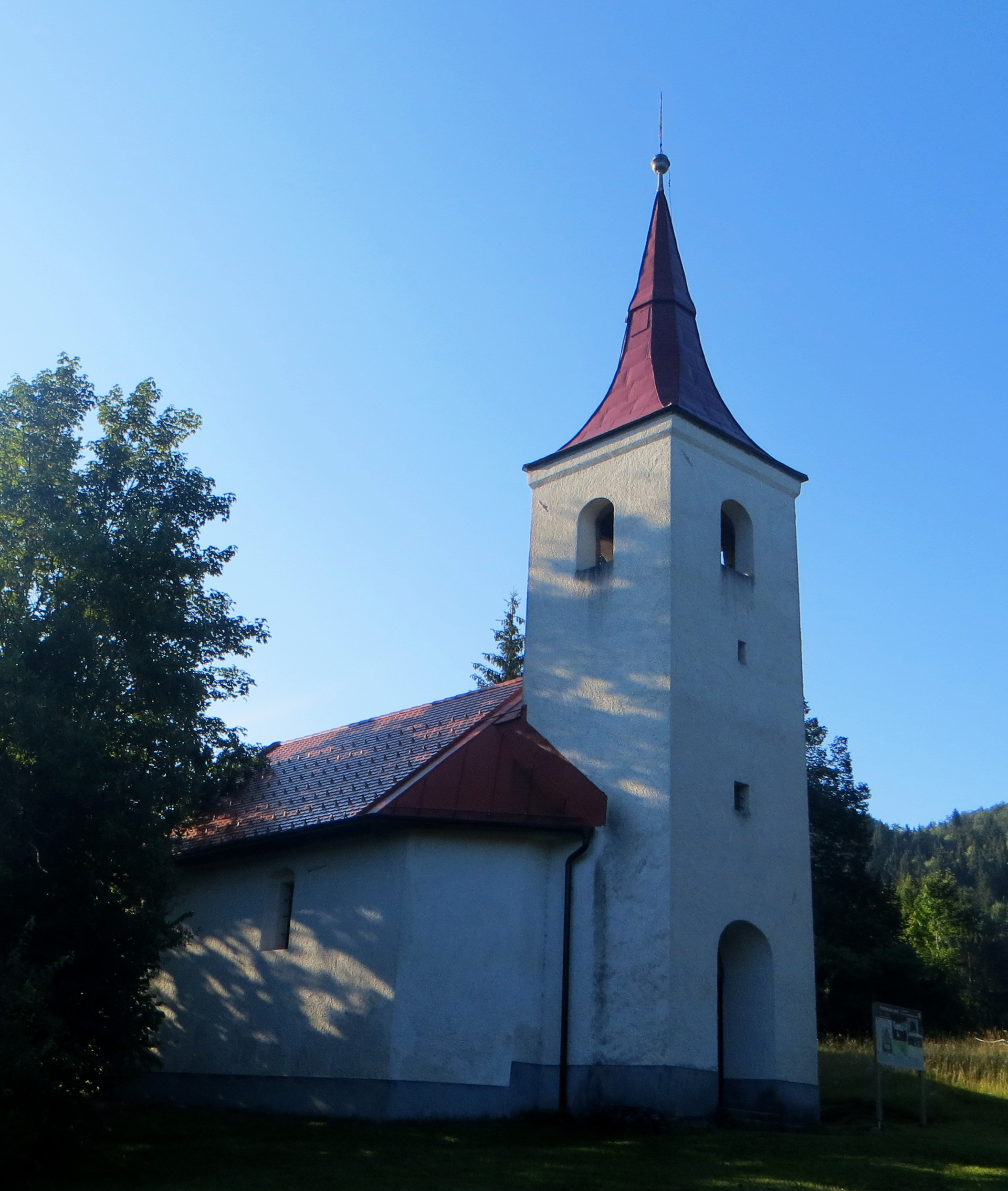 Saint Francis Xavier Church in Podslivnica, Municipality of Cerknica, Slovenia